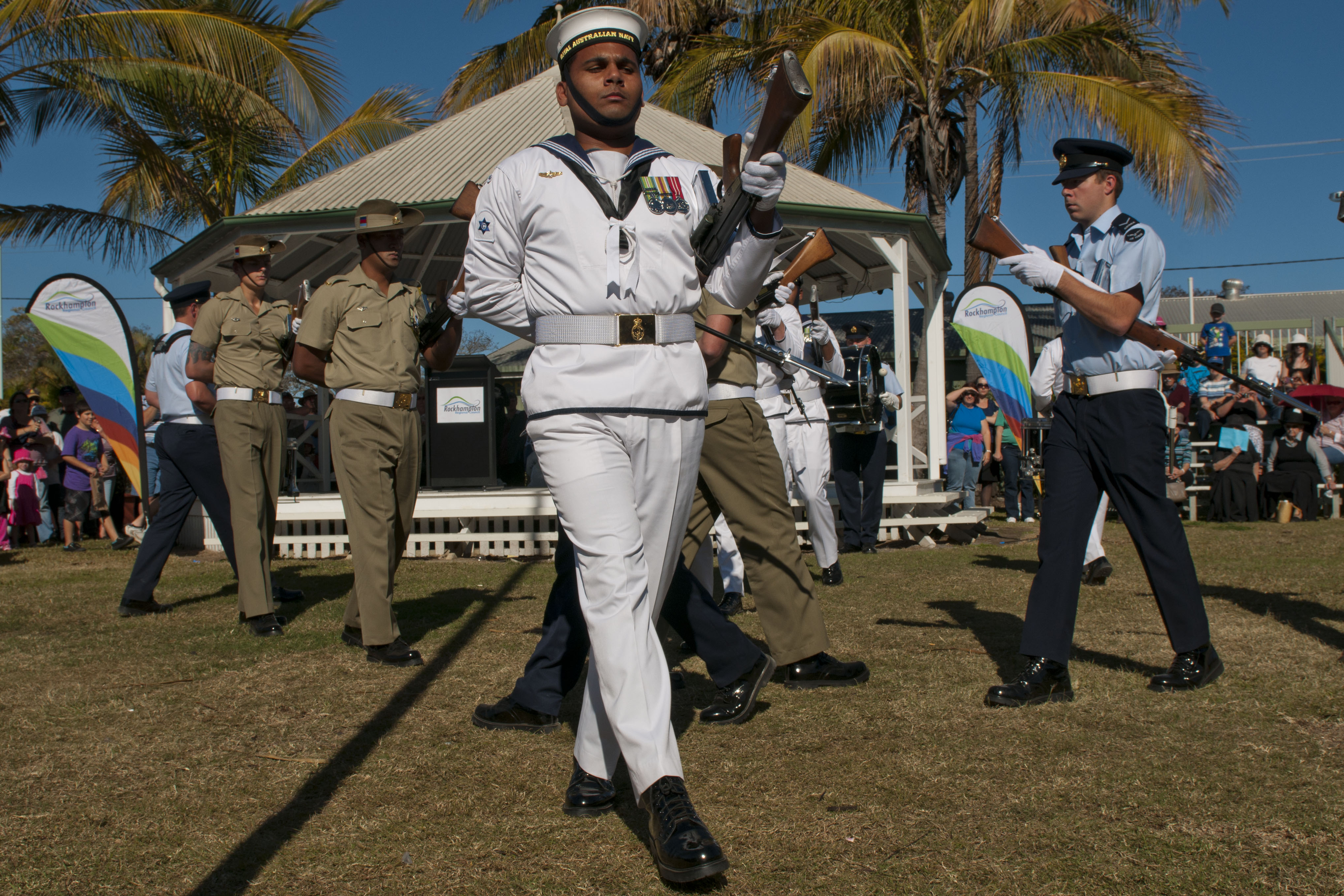 ROCKHAMPTON, Australia (July 9, 2011) Australia's Federation Guard performs at the opening ceremony for Talisman Sabre 2011. Talisman Sabre is a bilateral exercise designed to train Australian and U.S. Forces in planning and conducting Combined Task Force operations in order to improve Australian and U.S. combat readiness and interoperability. (U.S. Navy photo by Mass Communication Specialist 2nd Class Kenneth R. Hendrix/Released)